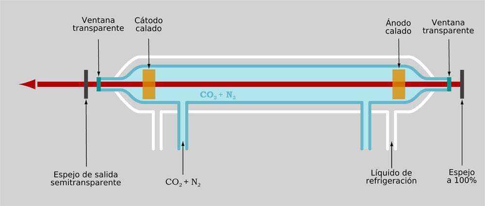 Diagram of a Carbon-Dioxyde Laser (CO2).